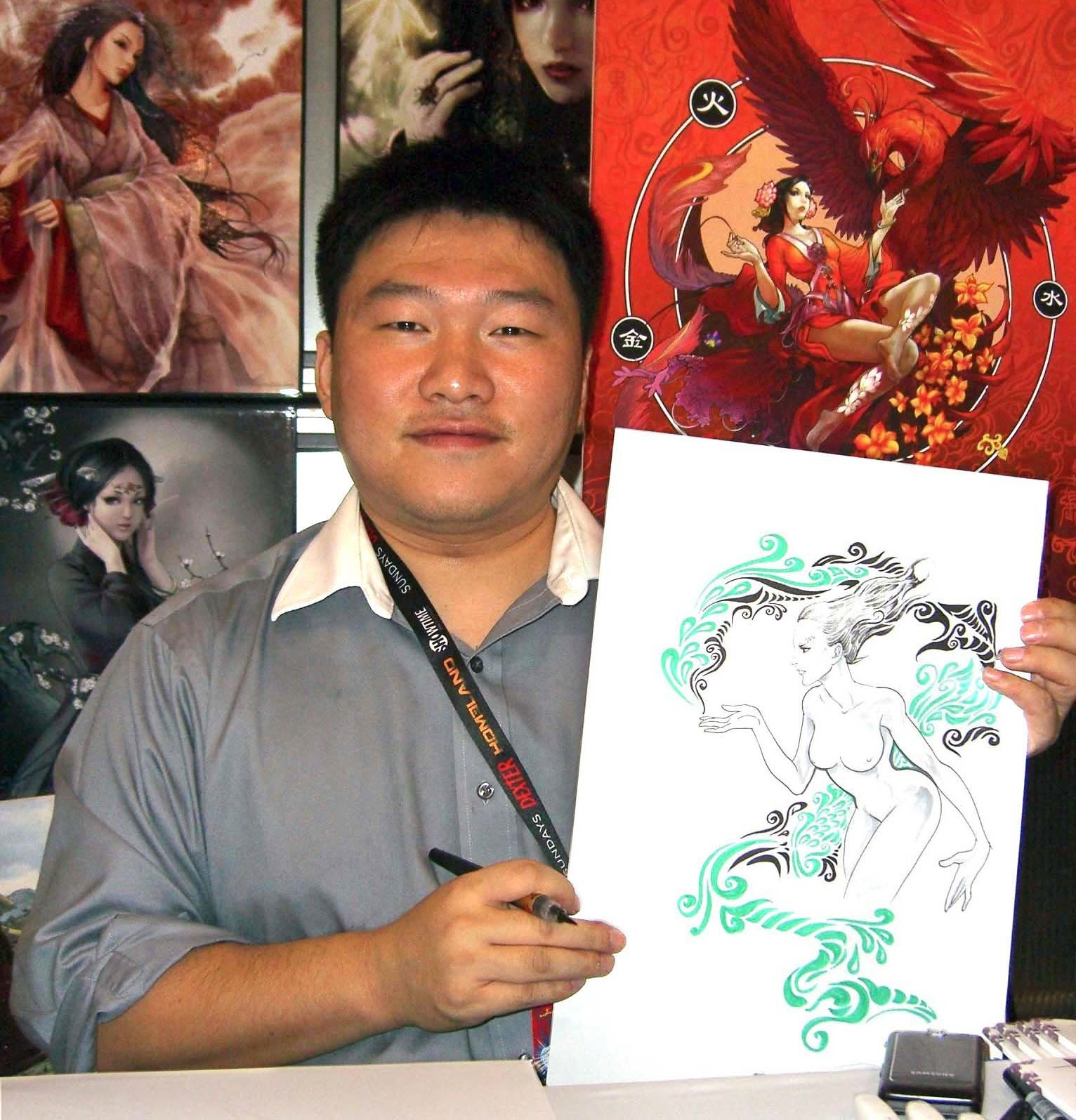 Comics creator Daxiong at the New York Comic Con, October 15, 2011. This photo was created by Luigi Novi. It is not in the public domain, and use of this file outside of the licensing terms is a copyright violation.